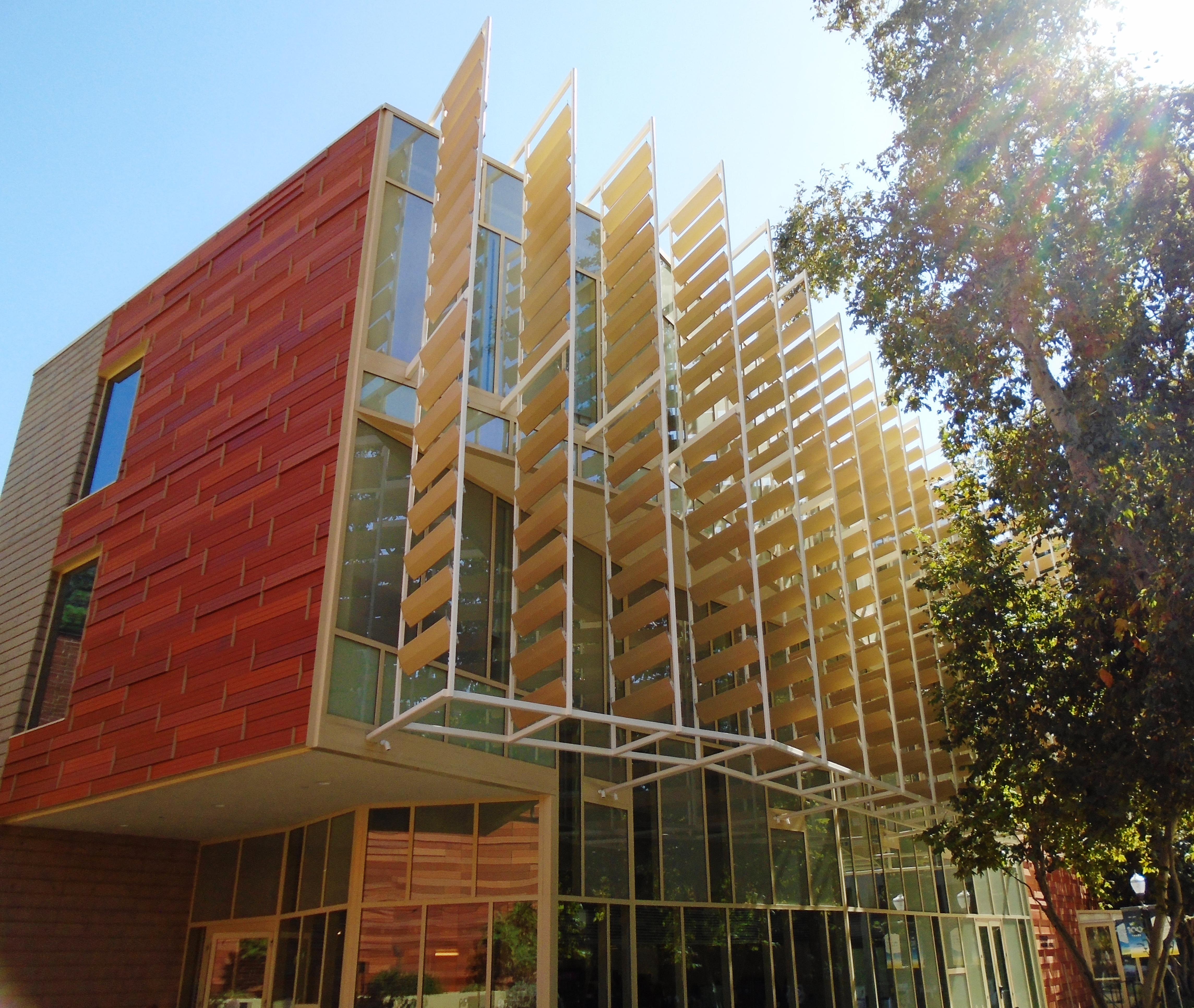 The Evelyn and Mo Ostin Music Center, on the campus of the University of California, Los Angeles (UCLA), was completed in 2014 and was designed by Kevin Daly of Daly Genik Architects. In 2016, it received a Los Angeles Architectural Awards given by Los Angeles Business Council. The Center is part of the UCLA Herb Alpert School of Music.